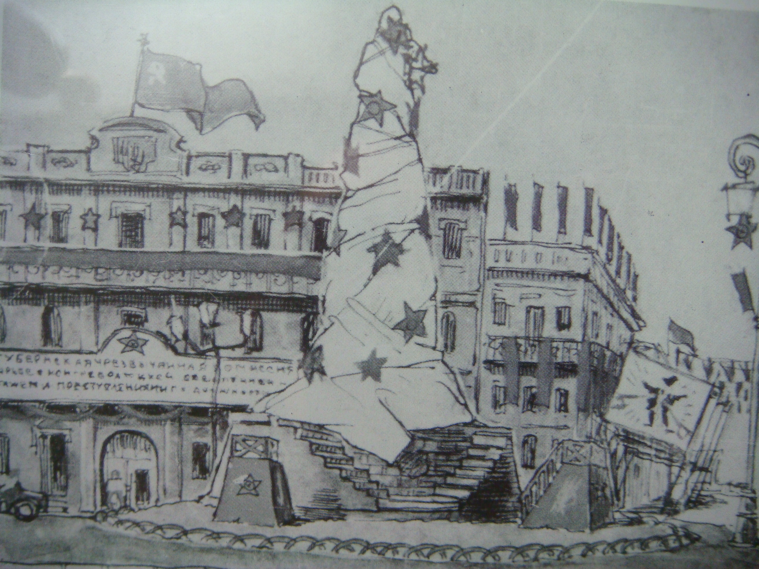 Example of Agitprop work in Odessa in 1919. Sketch of decoration of Katerynynska Square for May 1, shown.